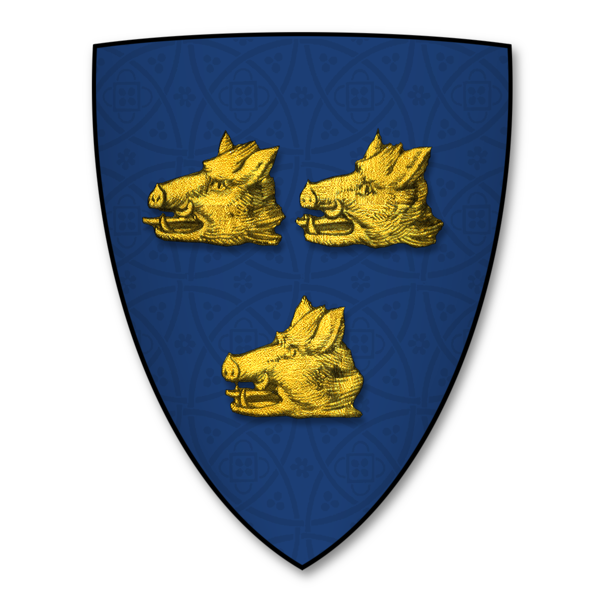 Armorial Bearings of the GORDON family of Haffield, Ledbury, Herefs. Arms: Azure, three boars' heads couped or. Crest: A deer-hound [attitude?] argent. Strong, George (1848) The Heraldry of Herefordshire: Being a Collection of the Armorial Bearings of Families Which Have Been Seated in the County at Various Periods Down to the Present Time., London: Churton Press